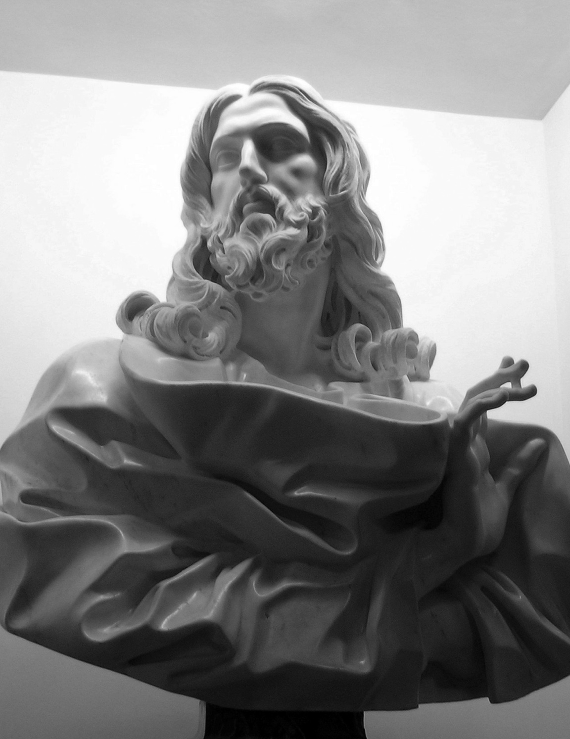 Salvator Mundi by Gian Lorenzo Bernini